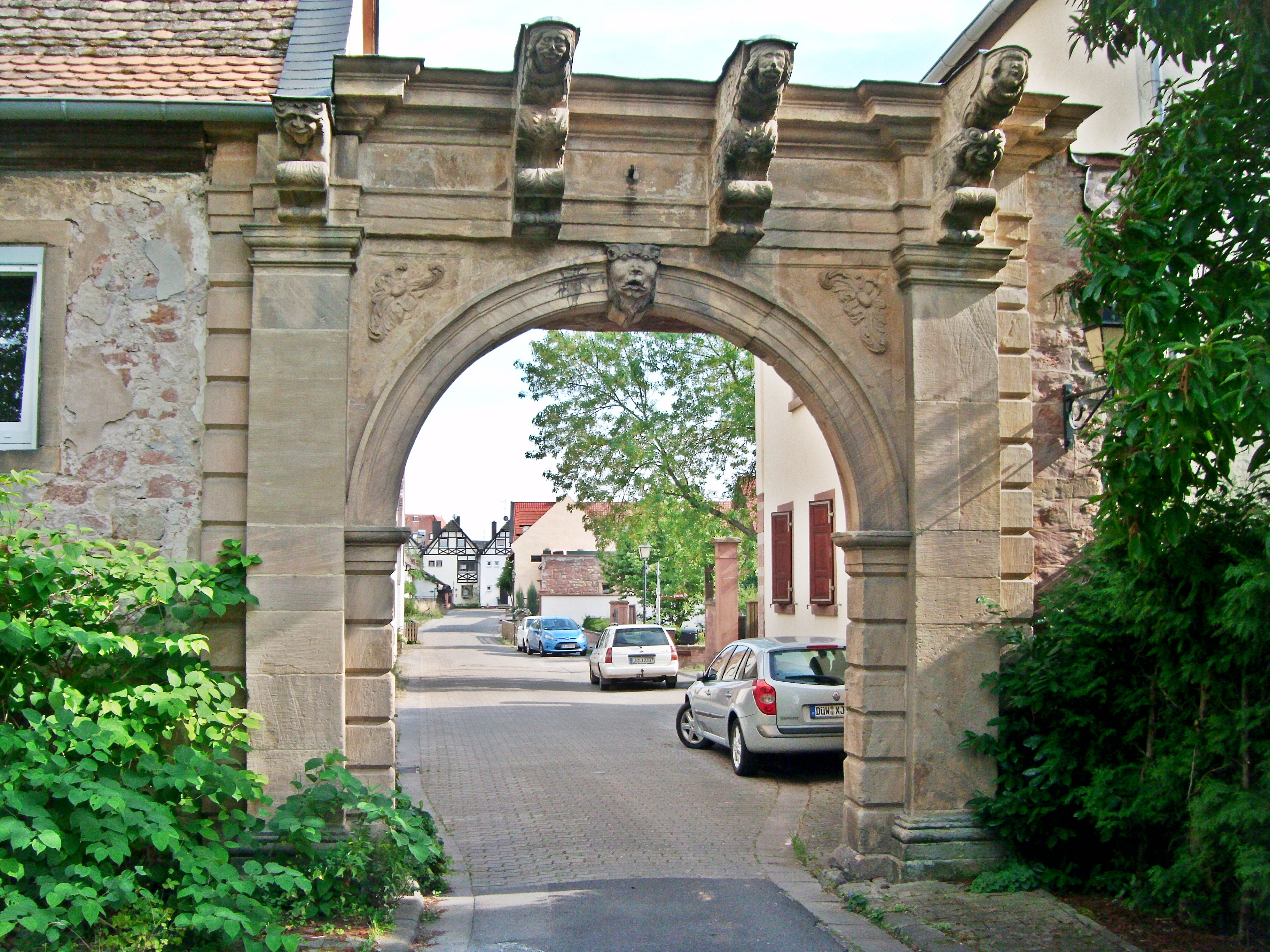 Friedelsheim, nördliches Schlosstor